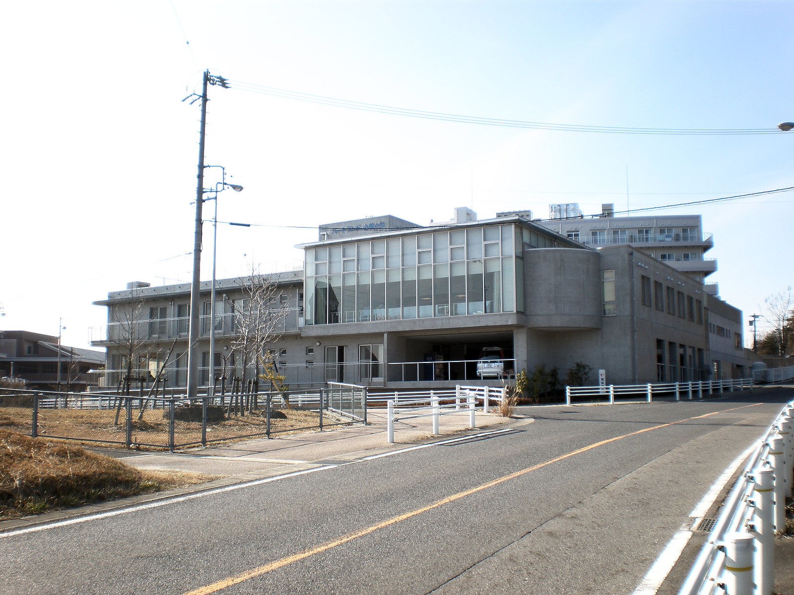 HeartLand Komaki no Mori